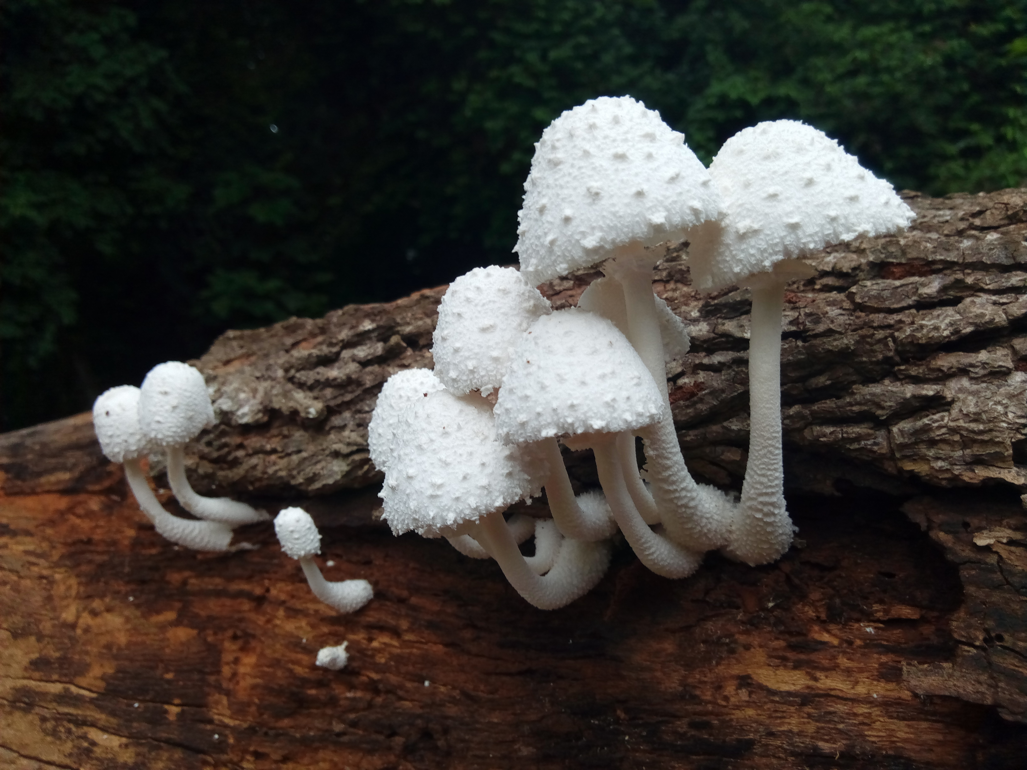 White mushrooms in the Sacred Forest of Kpassè. They are special species. The fungus is neither animal nor vegetable